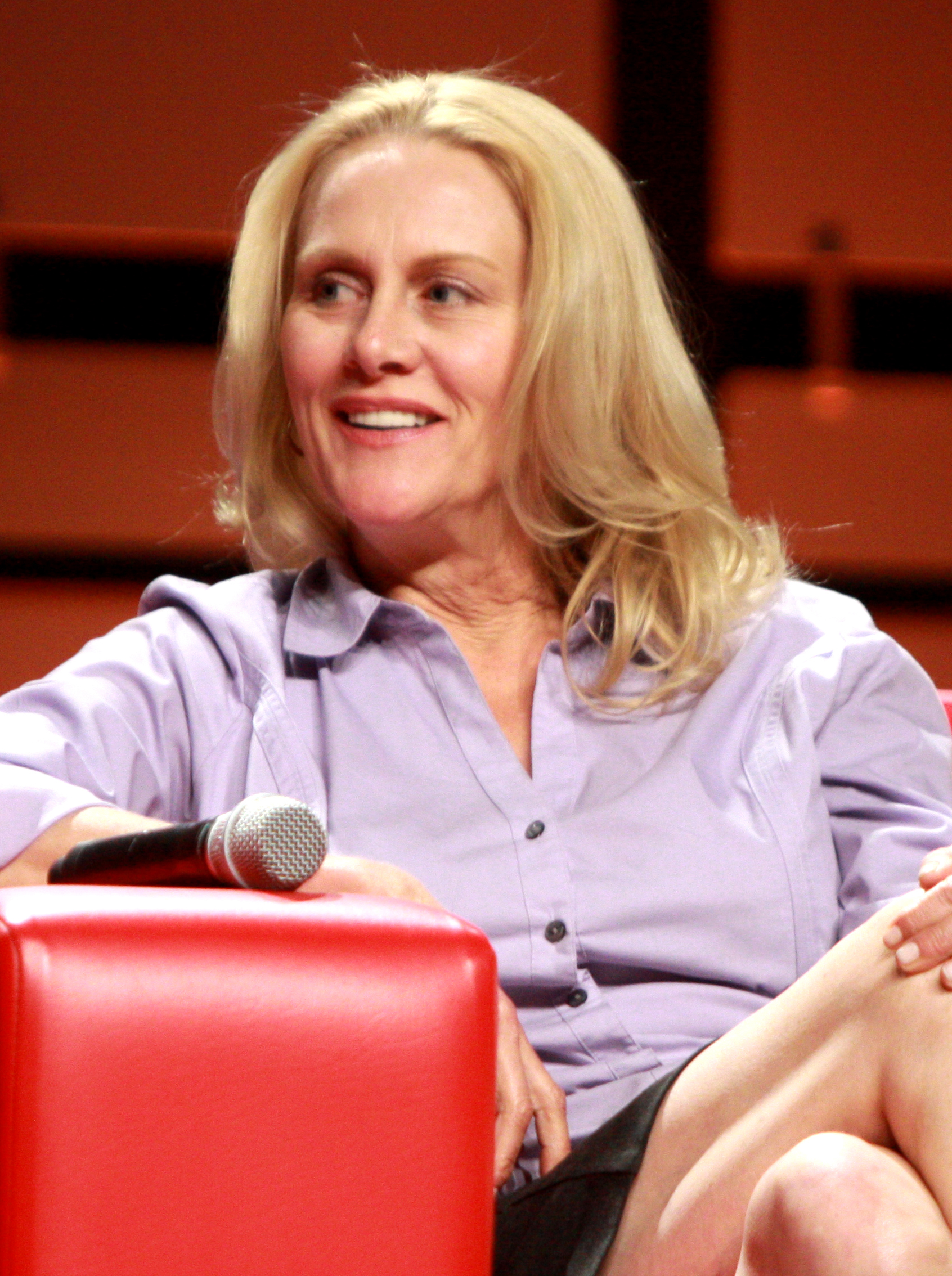 Andrea Thompson at the 2013 Phoenix Comicon in Phoenix, Arizona.